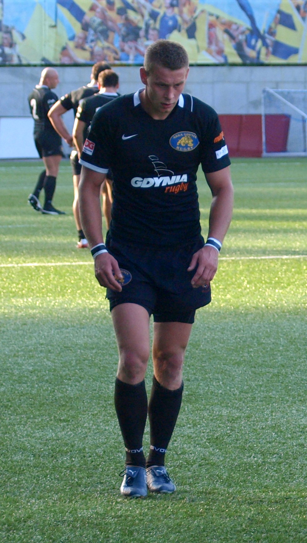 Polish rugby union player Dawid Banaszek while playing for RC Arka Gdynia.